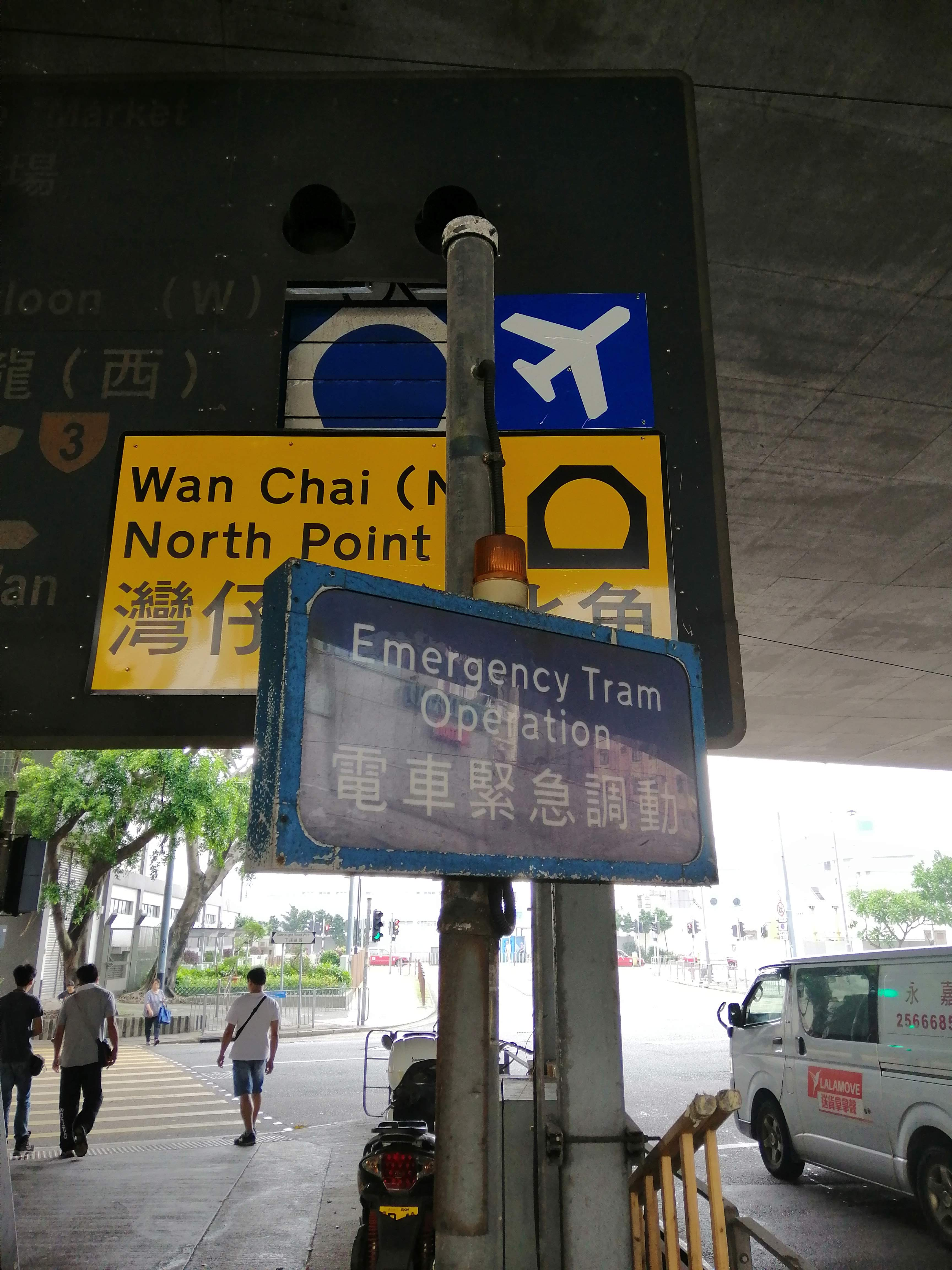 Scenery of Hong Kong Island